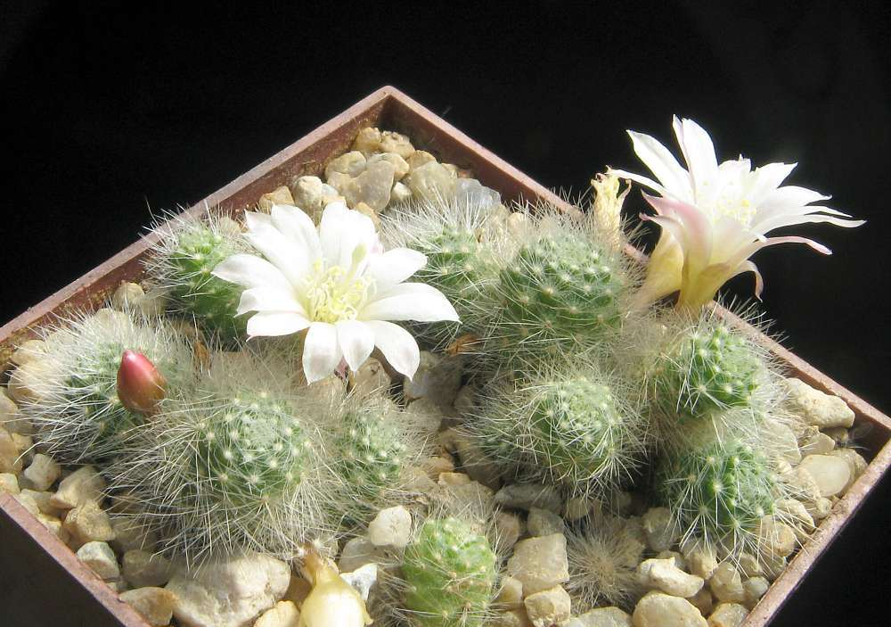 Rebutia pulvinosa subsp. albiflora (F.Ritter) Hjertson - cultivated plant from own collection.